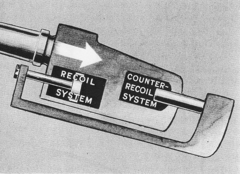 5" / 38 calibre Recoil & Counter-recoil system drawing. Cropped portion of image scanned from source.